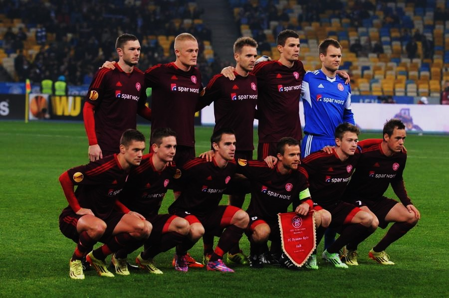 Aalborg BK 2014